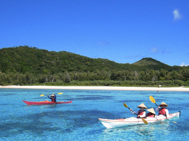 Sea kayakers on the clear waters of Zamami, Okinawa, Japan